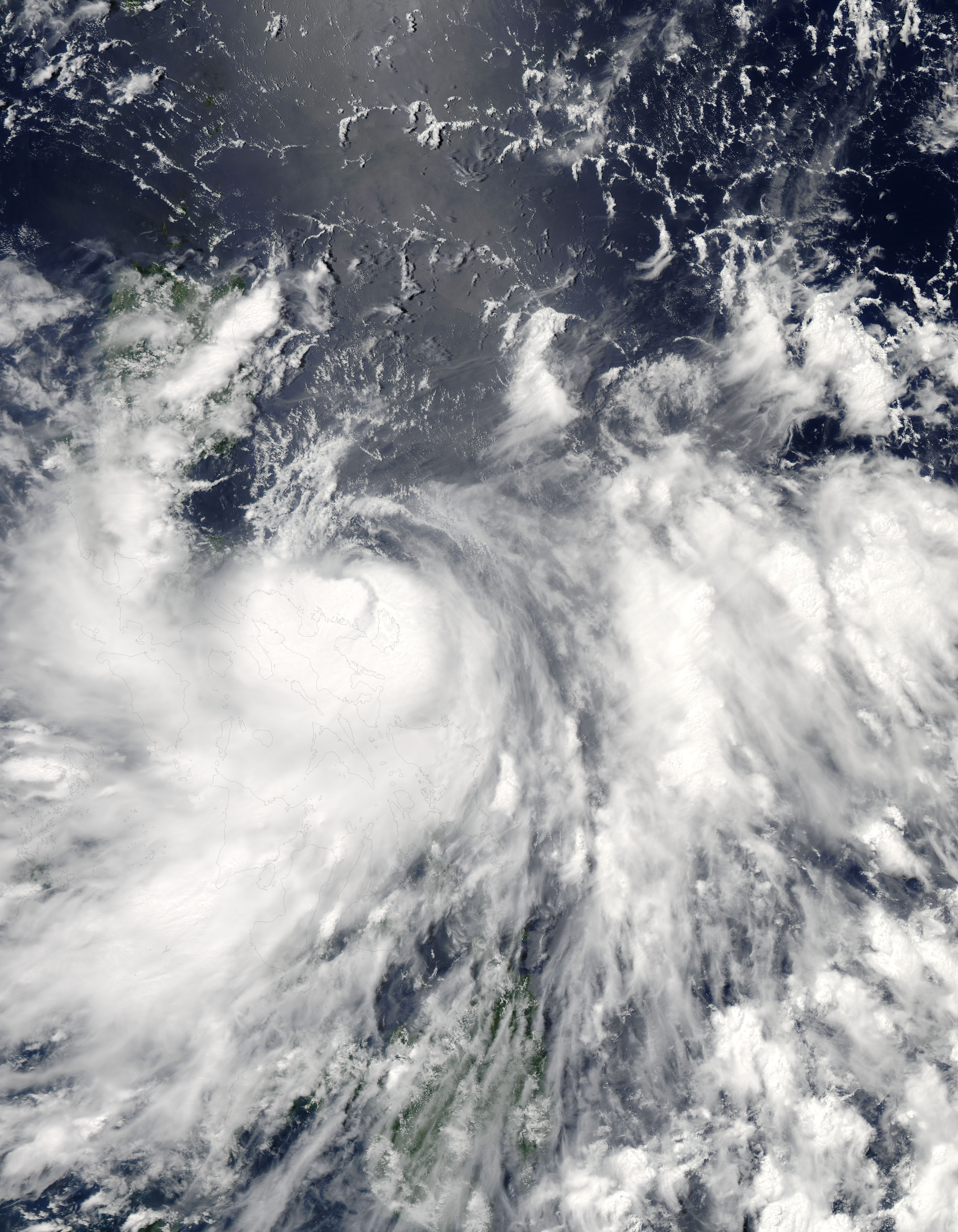 Conson in partial peak strength on July 13, 2010.